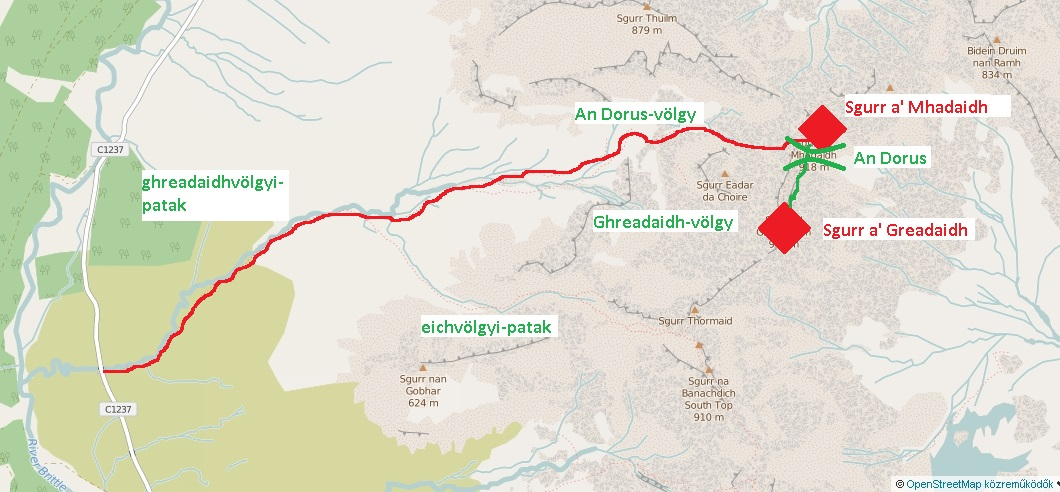 Trails leading to the summits of Sgurr a' Mhadaidh and Sgurr a' Ghreadaidh.